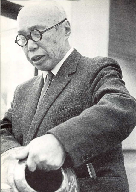 Photograph Shōji Hamada at the University of Michigan campus in Ann Arbor.